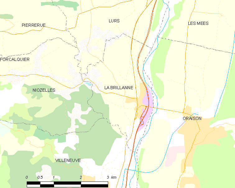 Map commune FR insee code 04034.png Légende